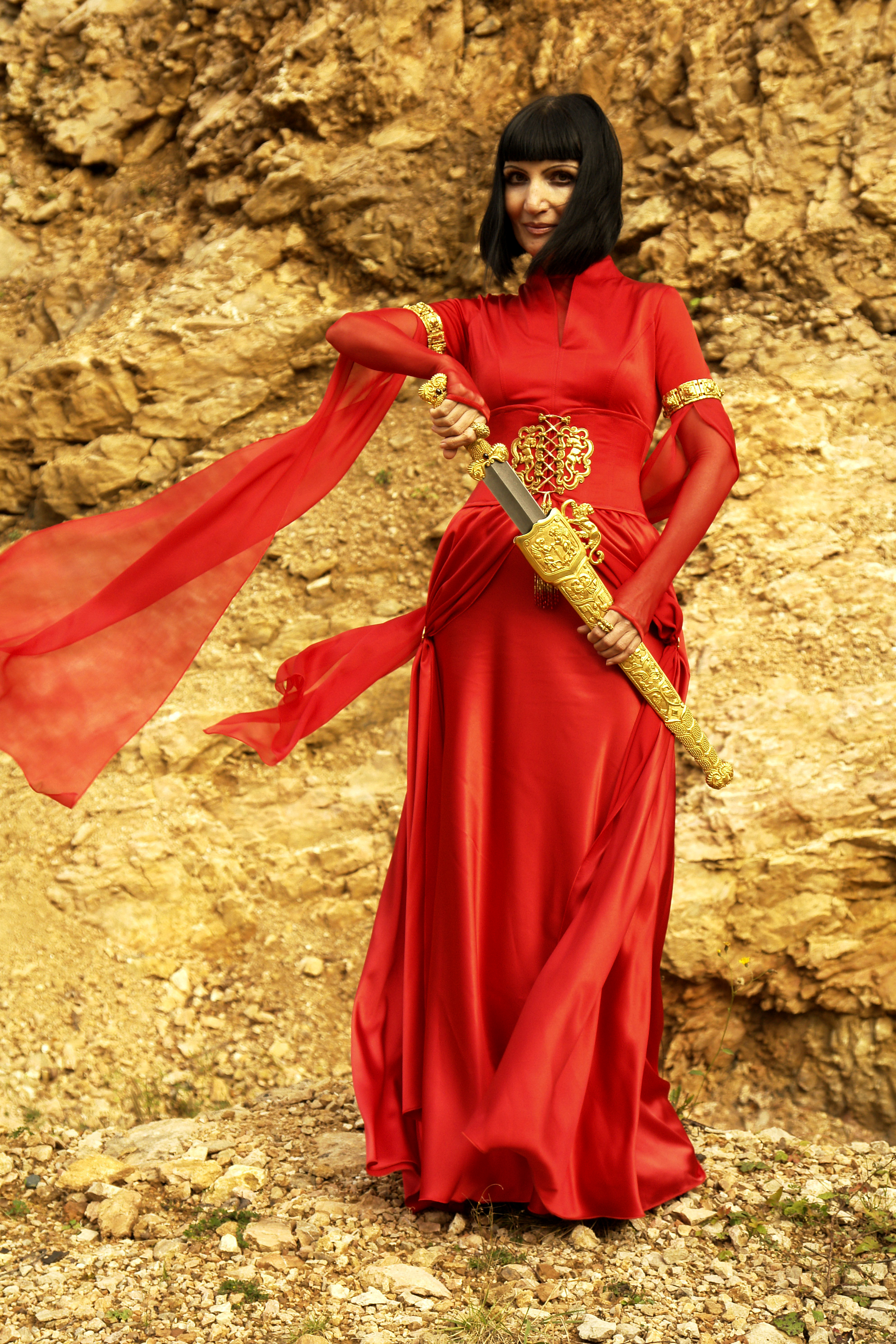 Asya Aslanovna Eutykh